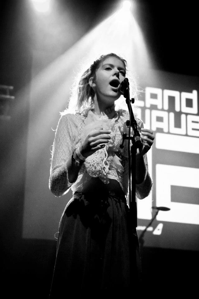 Samaris performance at Iceland Airwaves Music Festival 2012